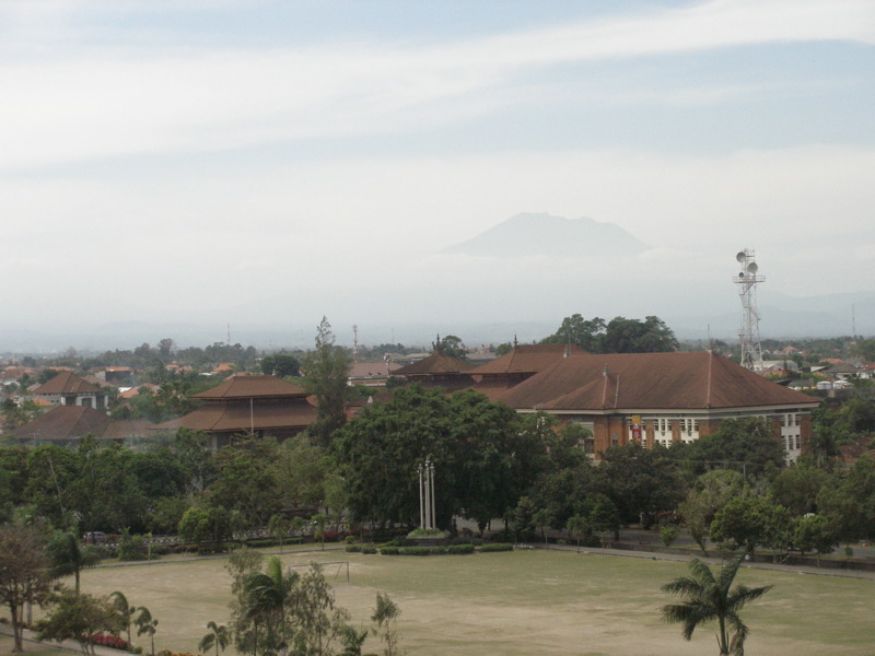 Mount Agung over Denpasar.